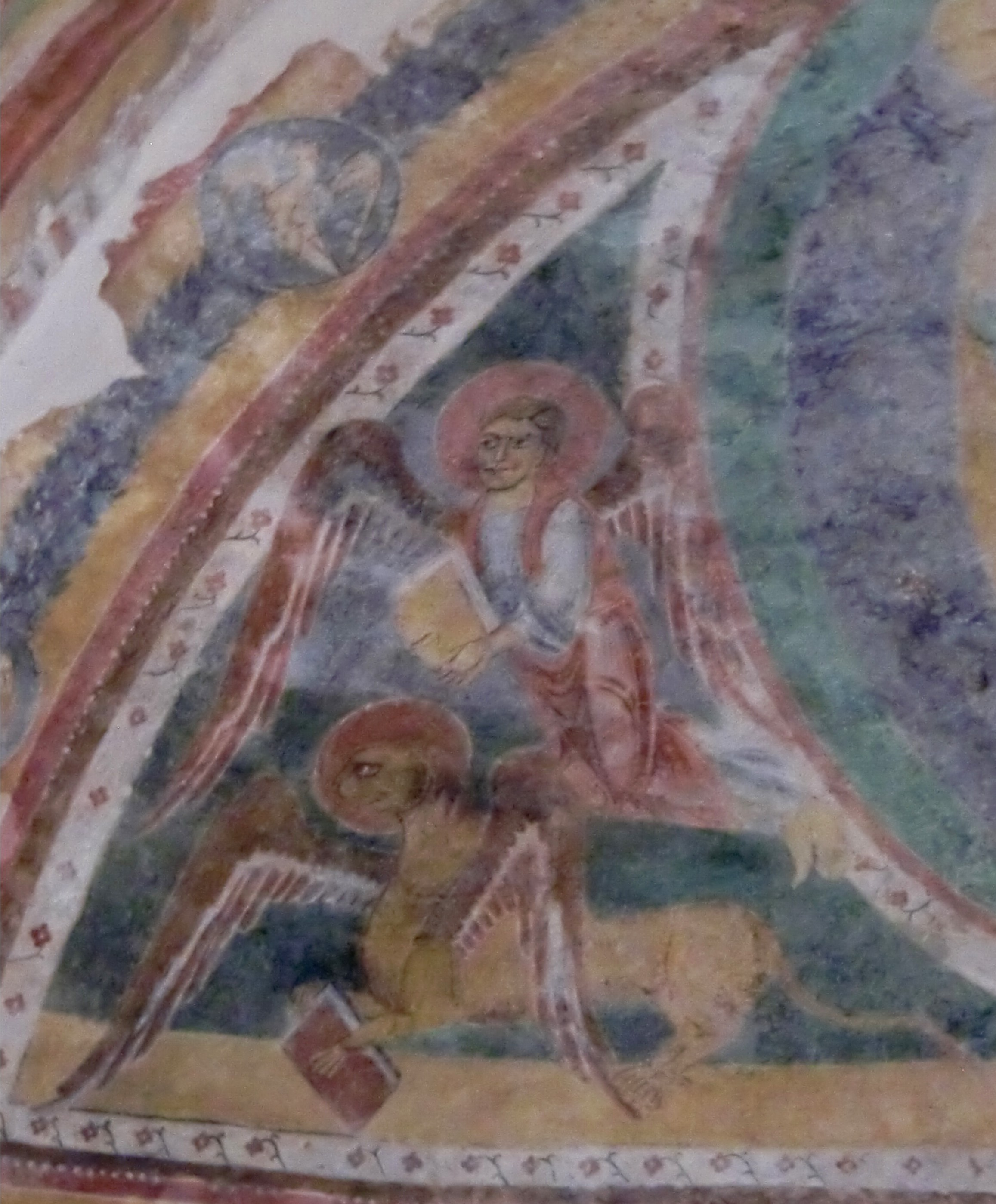 Tetramorph, Symbols of St. Matthew and St. Mark, frescoes in the apse of the church of Santo Stefano di Sessano, XI century, Chiaverano, Italy